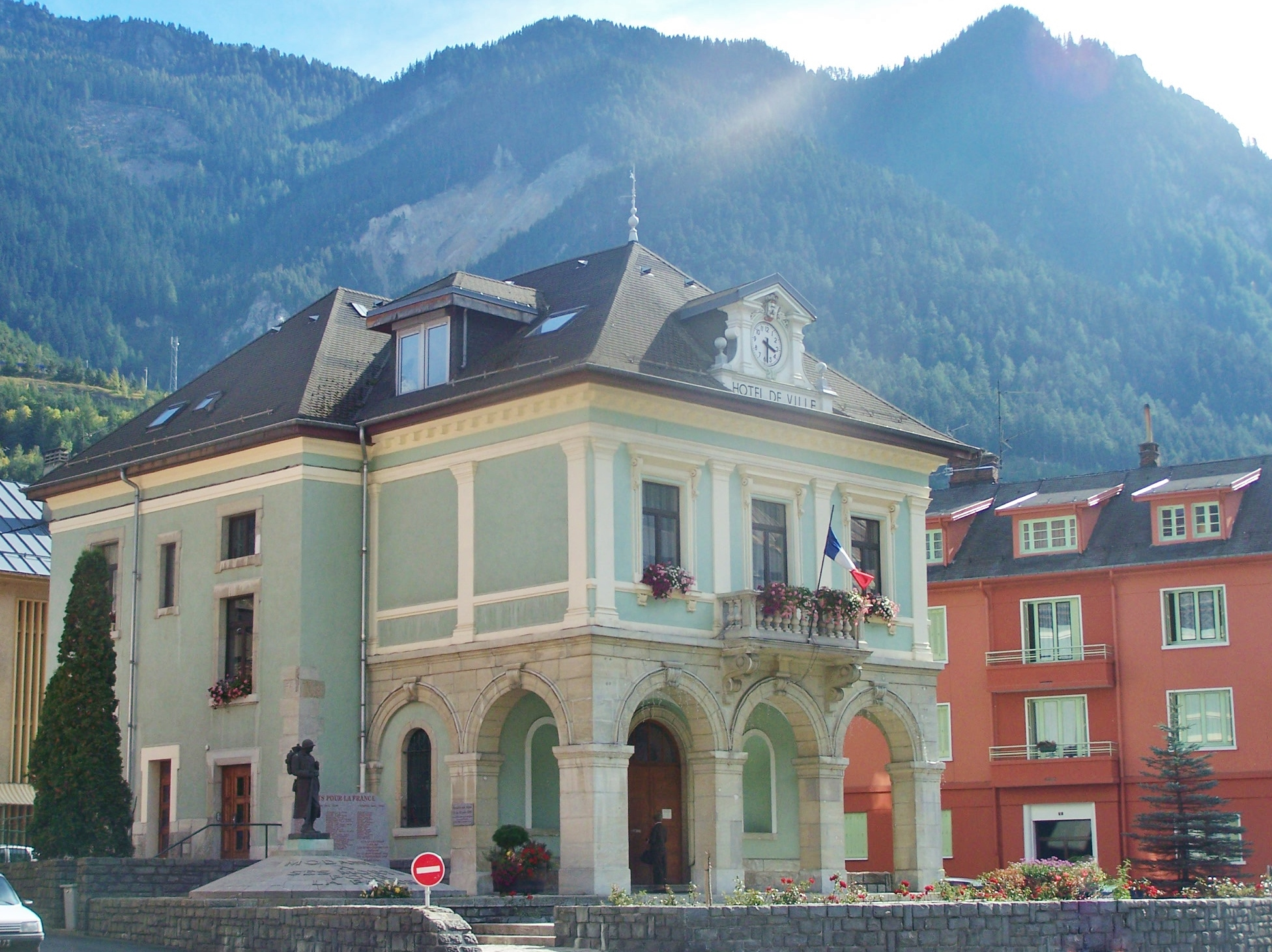 Sight of Modane town hall, in the Maurienne valley, Savoie, France.